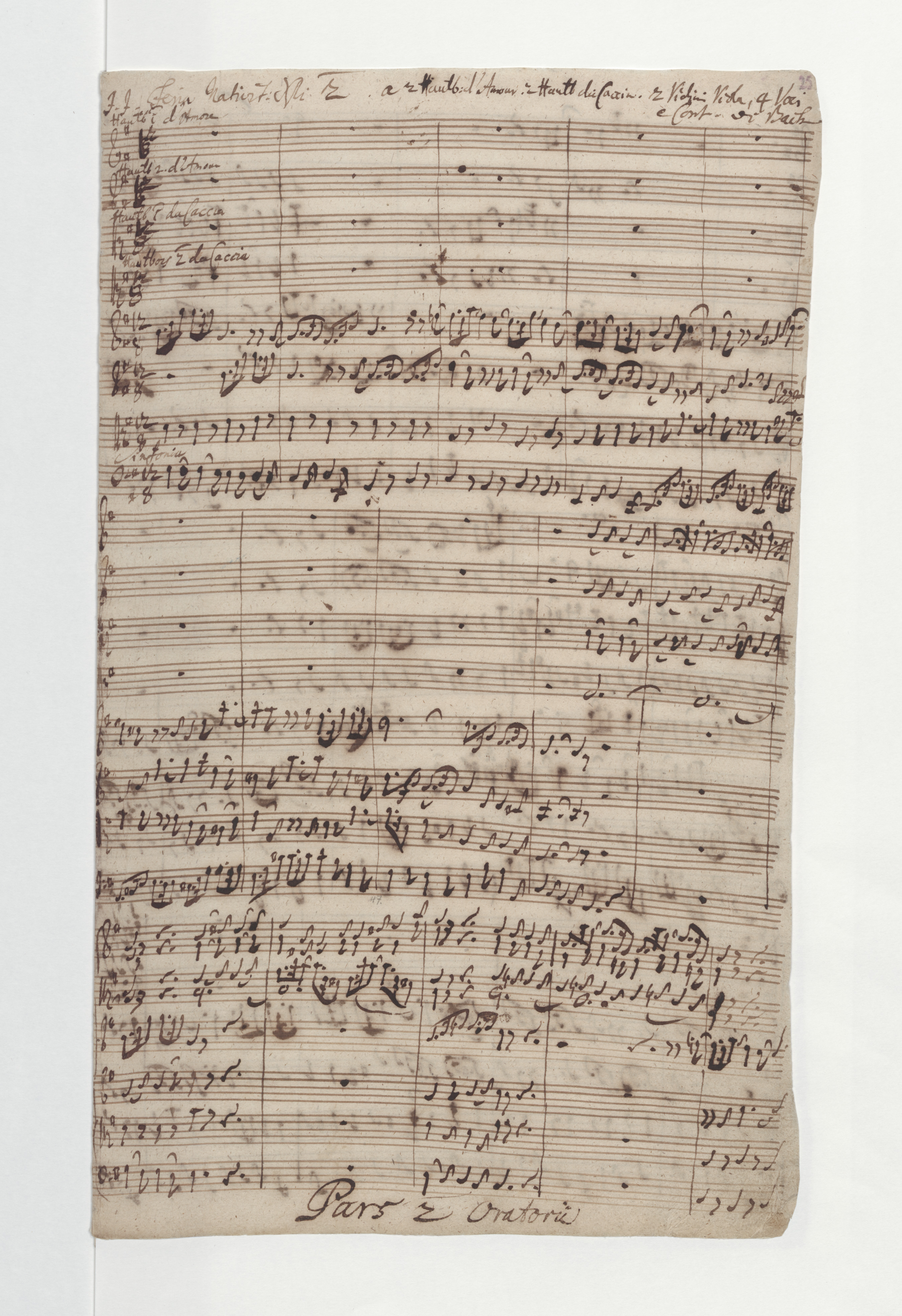 Autograph manuscript of the first page of the Sinfonia from Part II of the Christmas Oratorio, BWV 248